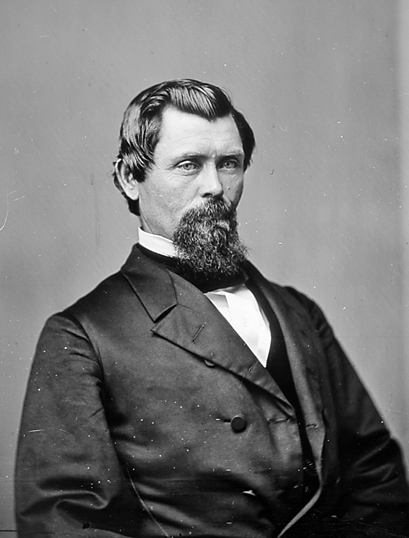 William J. Allen, US Representative from Illinois